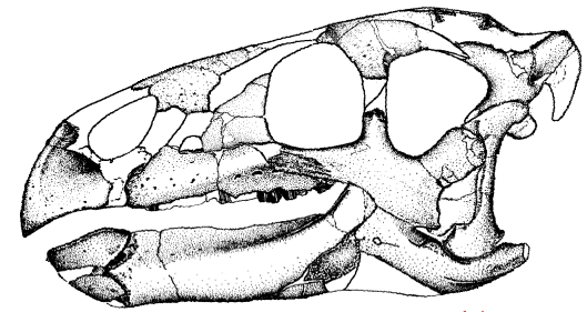 Reconstruction of the skull of Zalmoxes based on the parts of the skull which are known. Zalmoxes.